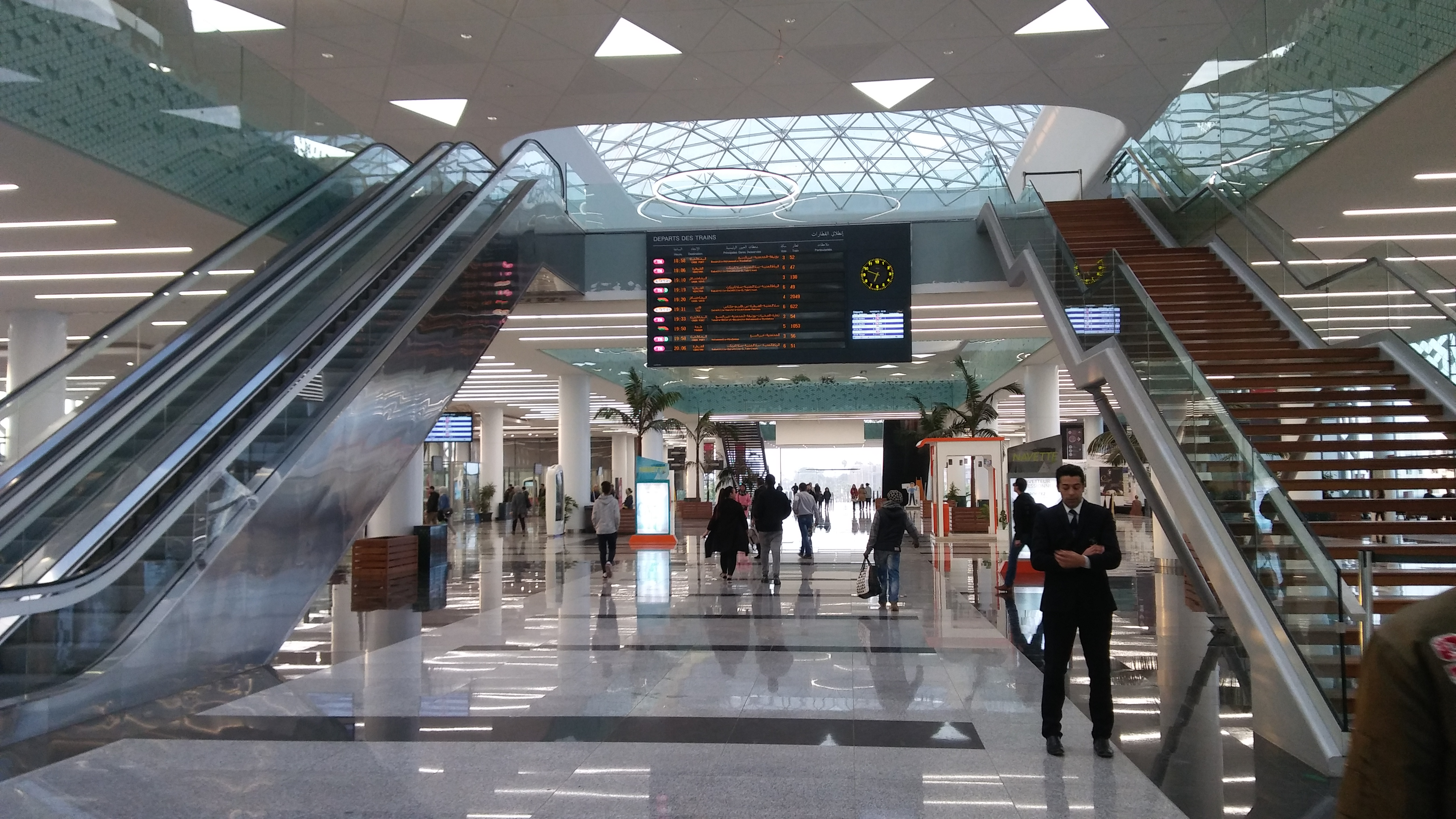 From the new Rabat Agdal station you can reach Casablanca in 55 minutes.